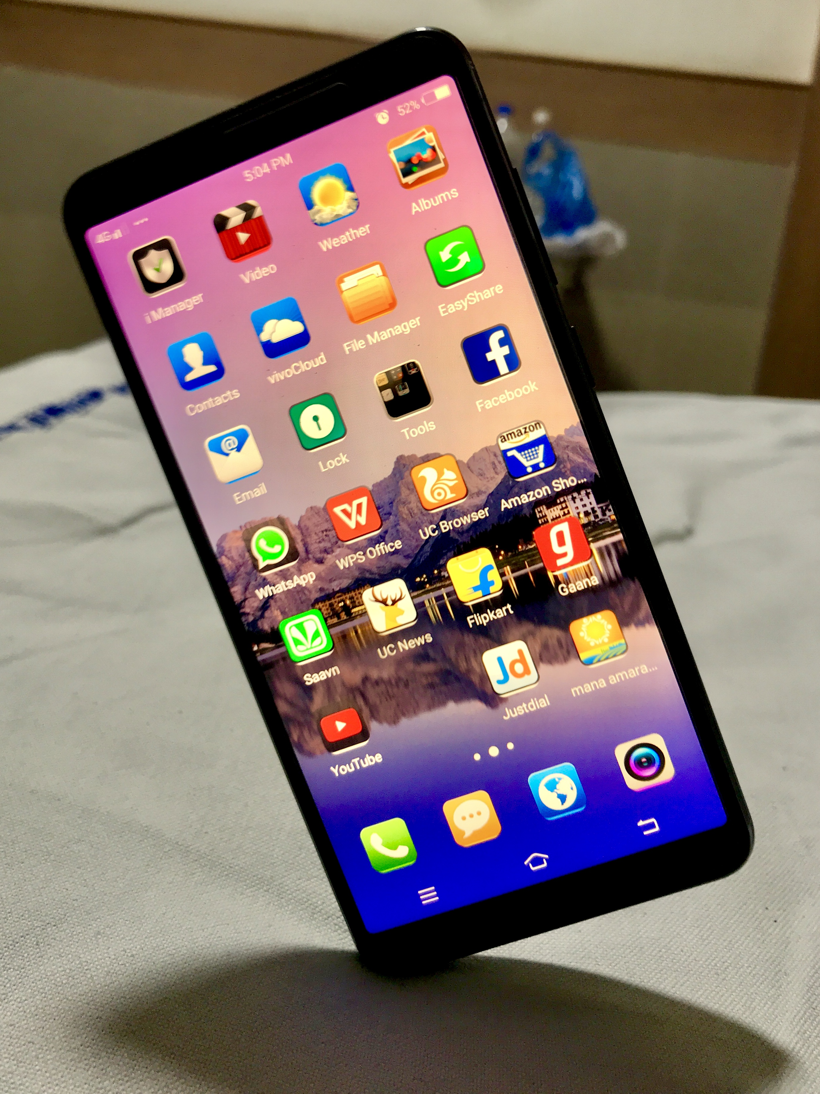 Perfectly balanced Vivo V7